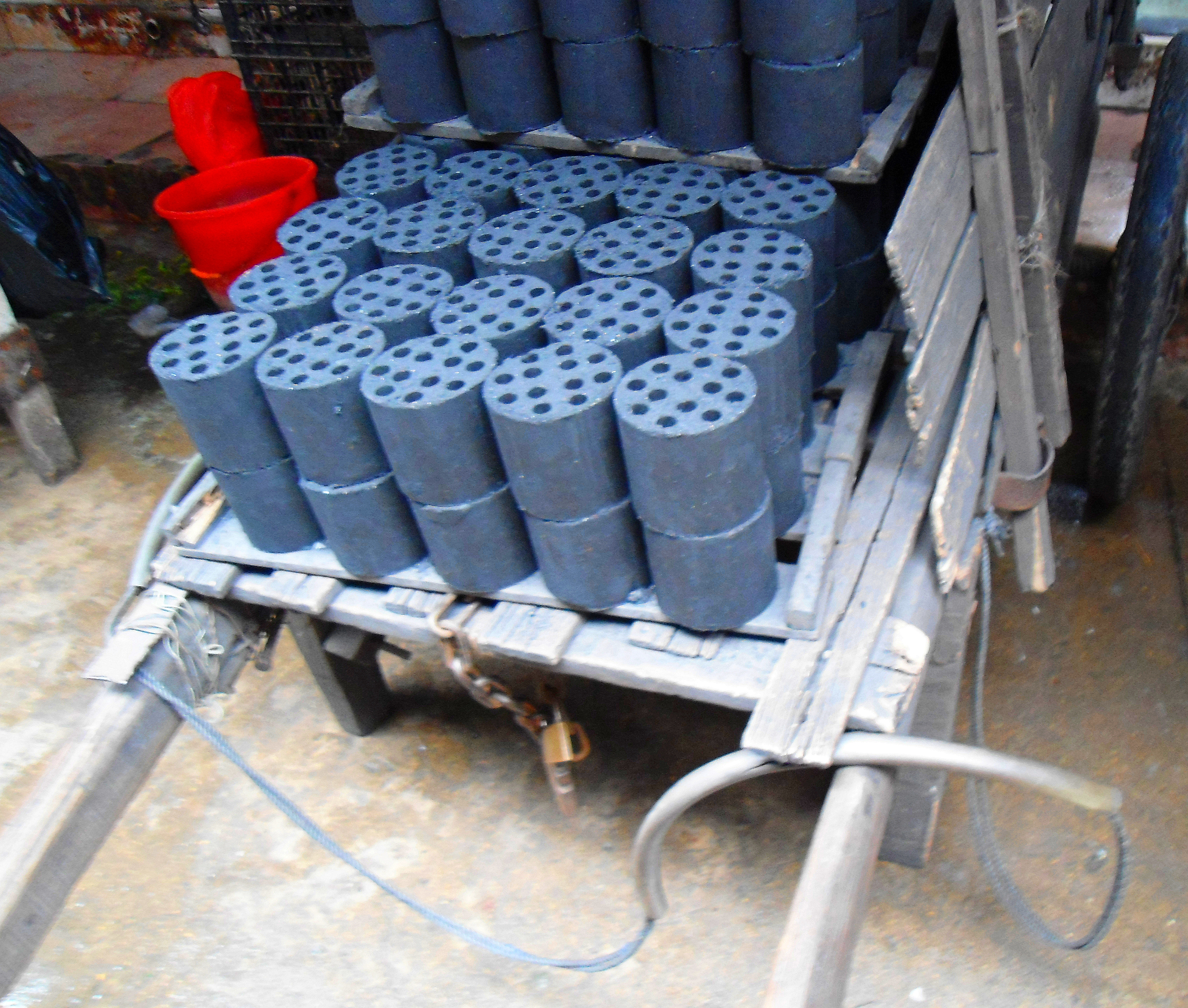 Fuel cylinders (briquettes) in Haikou City, Hainan Province, China.